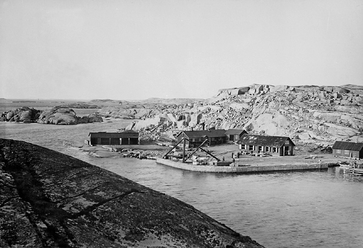 Stonemasonry at Husebergs pall in Stångehuvud, Lysekil, Sweden. From a glass plate.